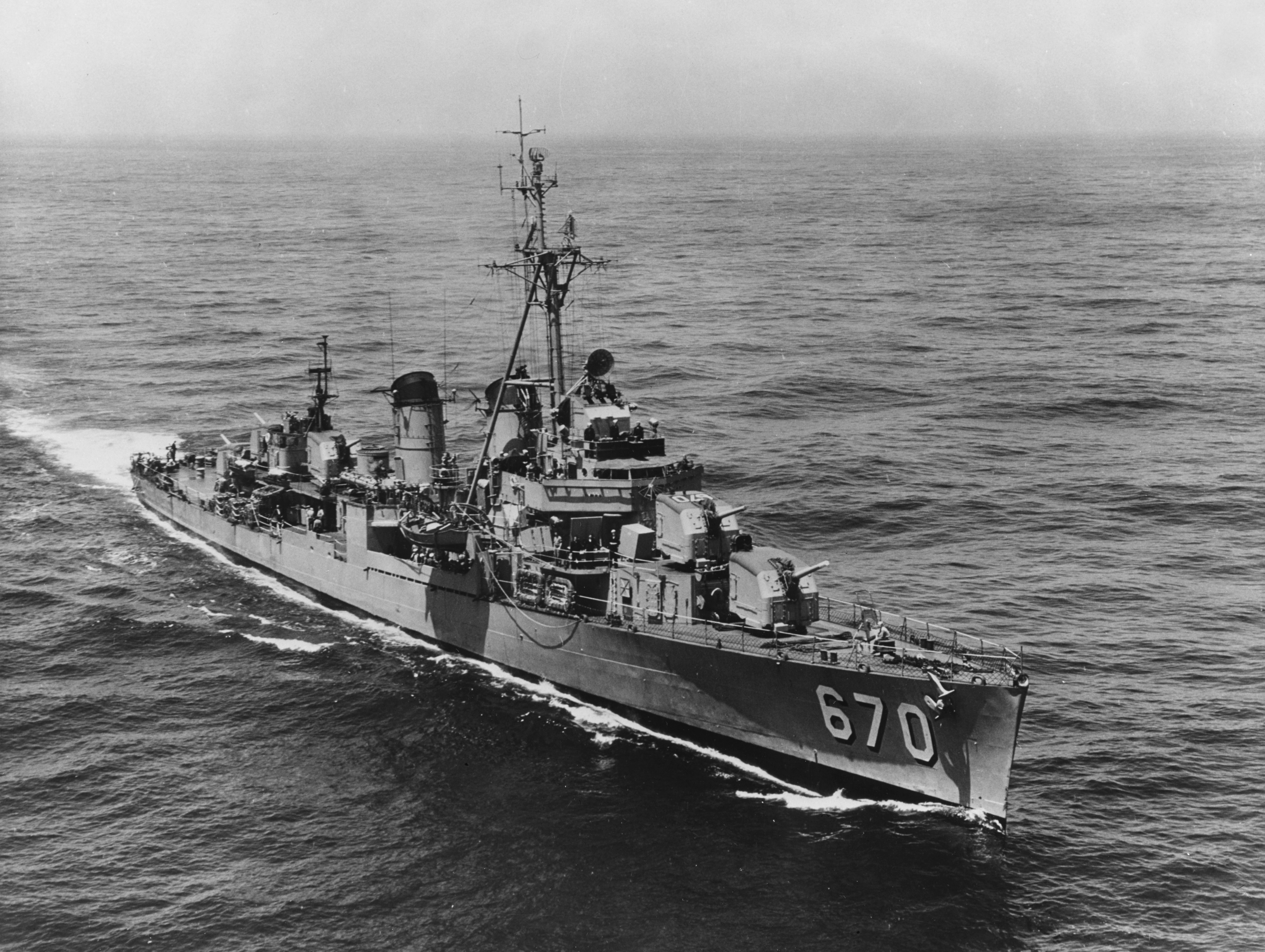 The U.S. Navy destroyer USS Dortch (DD-670) underway at sea, circa the early 1950s.